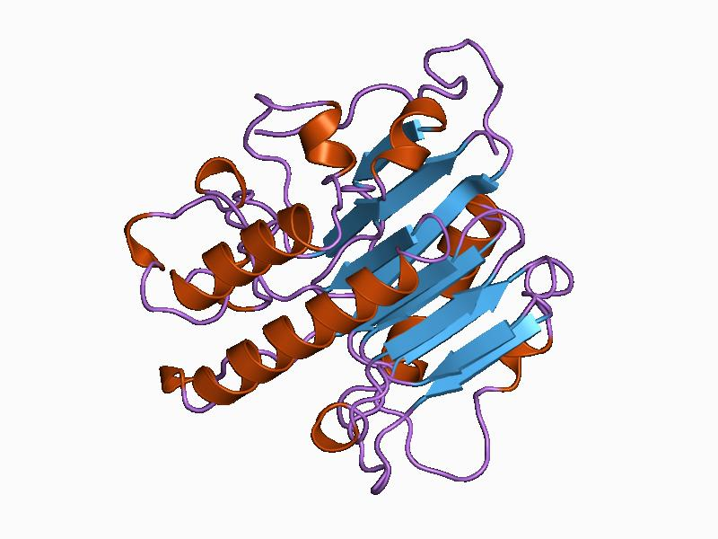 Cartoon representation of the molecular structure of protein registered with 1bix code.